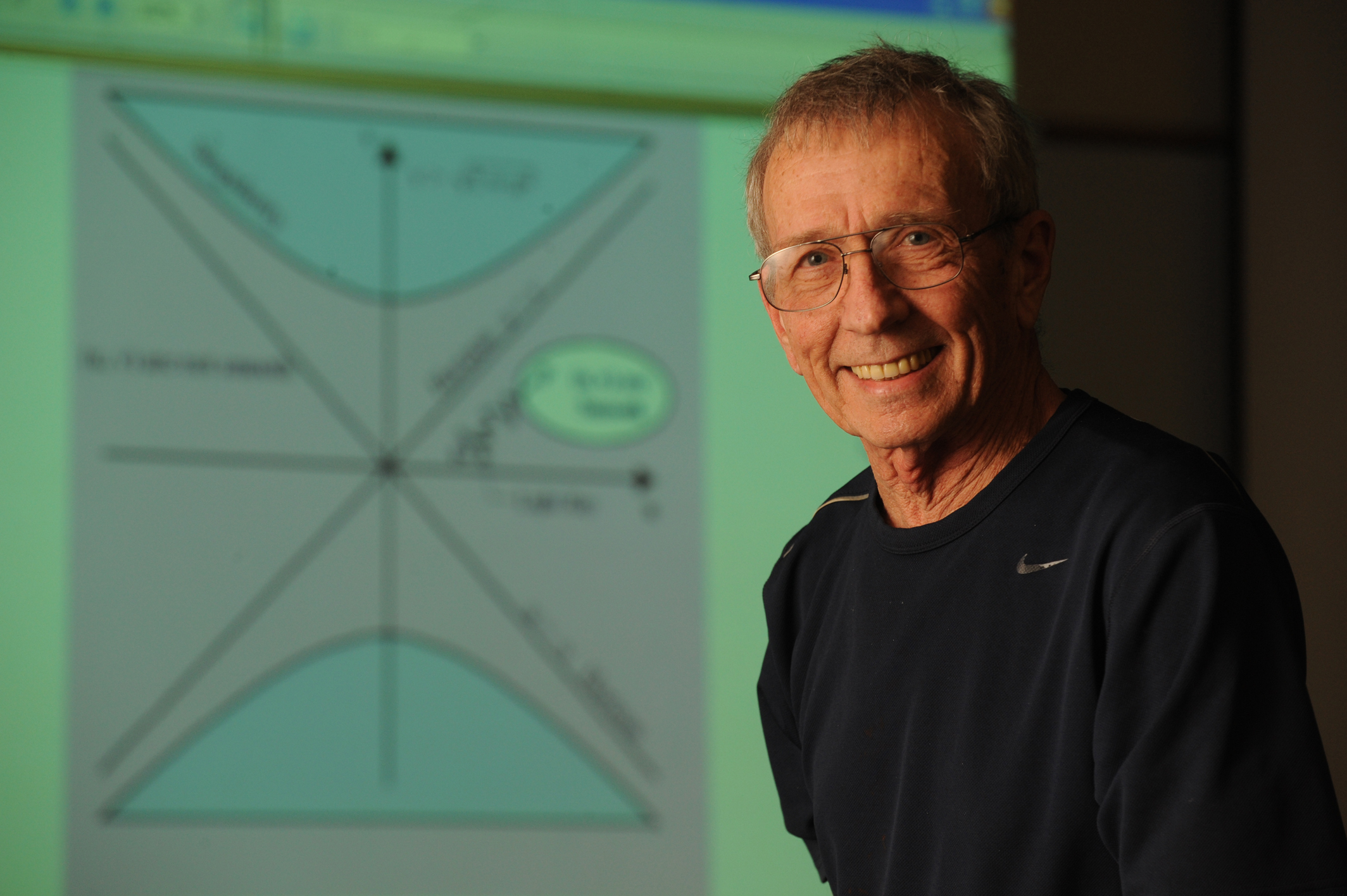 Carl Brans, Ph.D., is a professor emeritus of physics at Loyola University New Orleans.